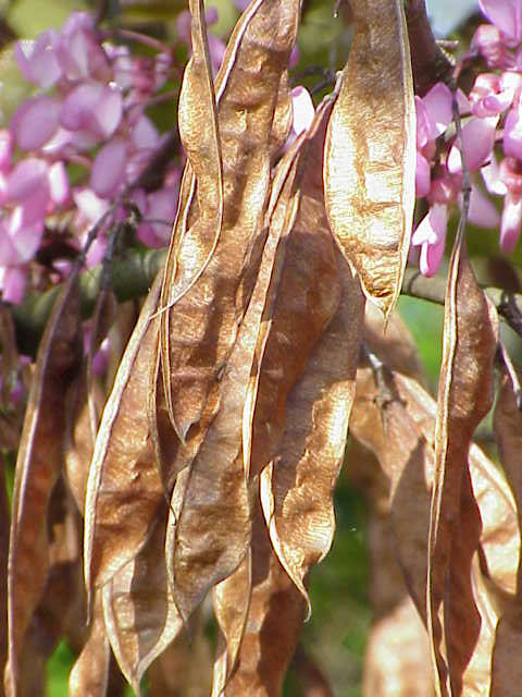 Species: Cercis siliquastrum Family: Caesalpiniaceae Image No. 1